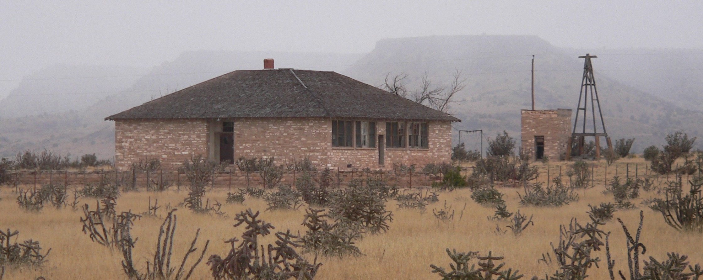 Goodson Memorial School, north of Hwy 456 about 4 miles west of its junction with Hwy 406 in rural Union County, New Mexico; seen from the southeast.